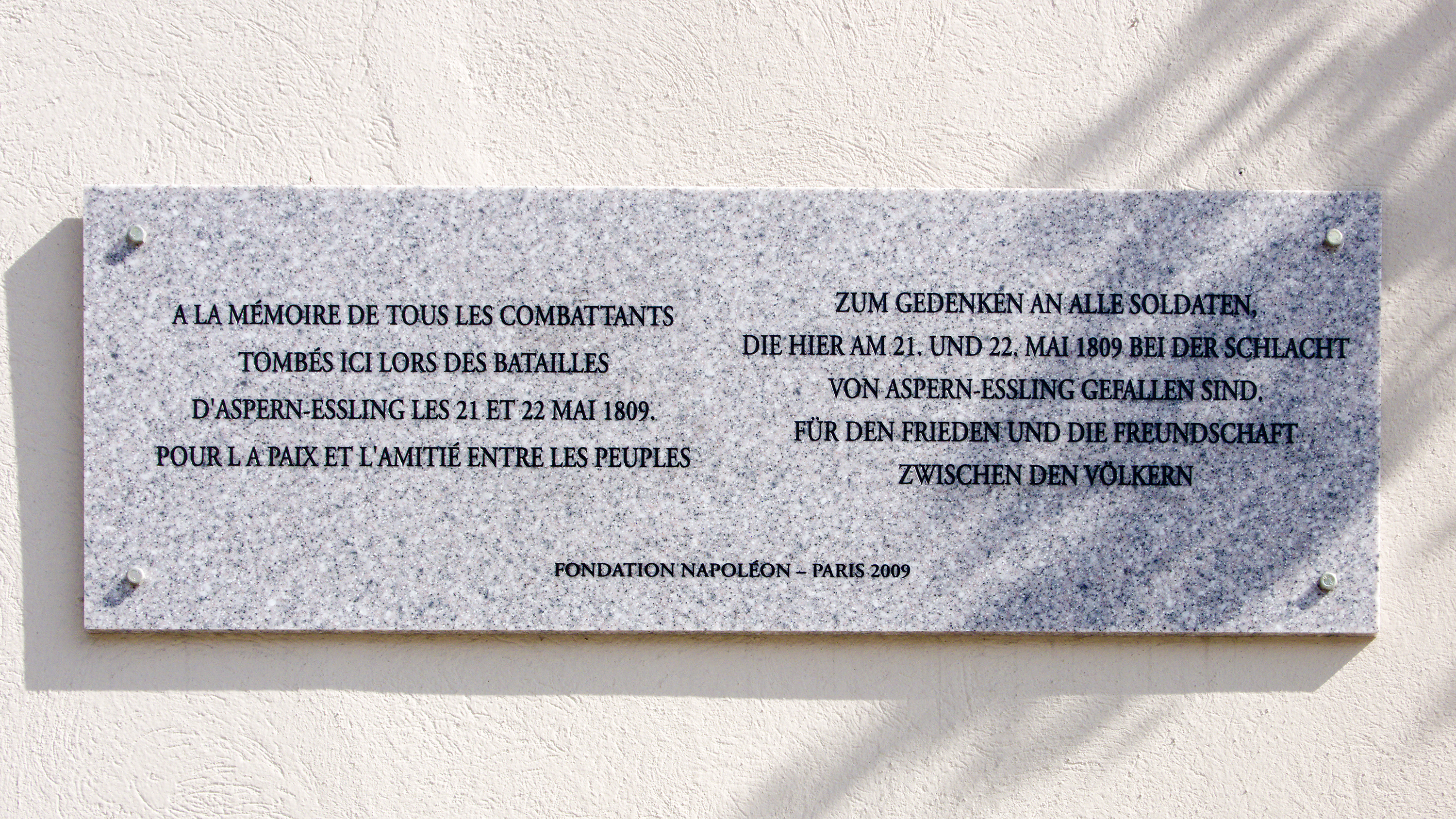 Palace Schloss Essling in Vienna Donaustadt